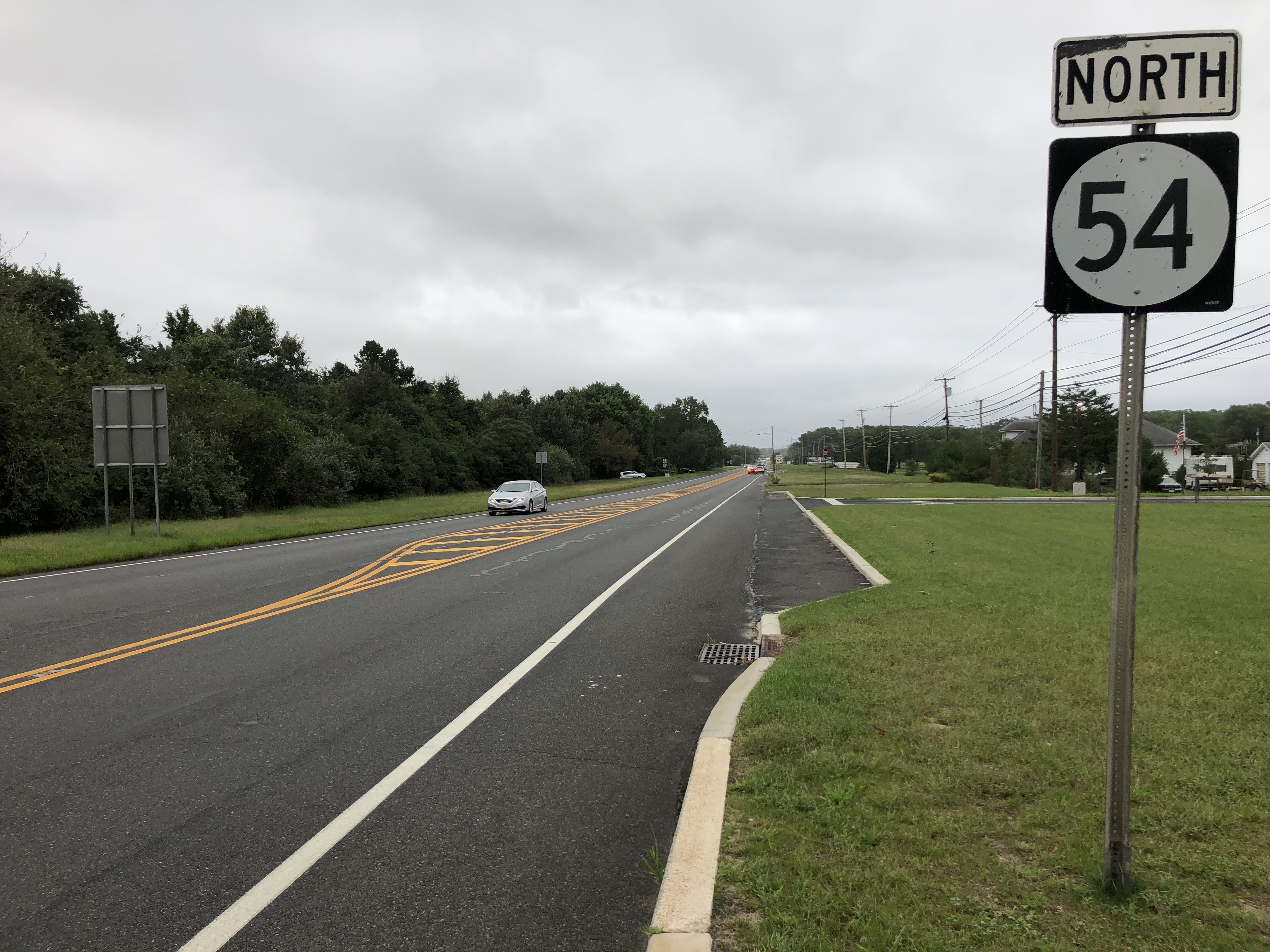 View north along New Jersey State Route 54 (Twelfth Street) just north of New Jersey State Route 73 and Atlantic County Route 561 Spur (Mays Landing-Blue Anchor Road) in Folsom, Atlantic County, New Jersey